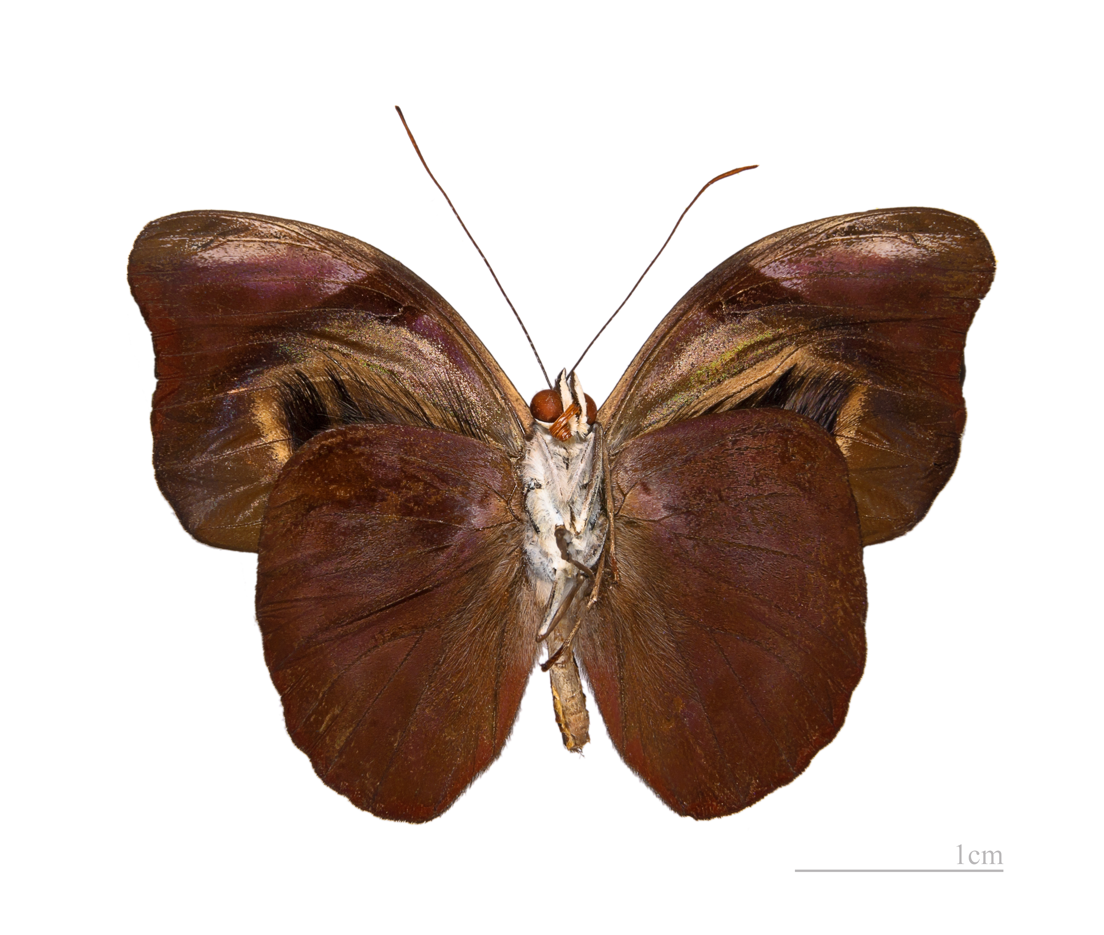 ♂ - △ Ventral side Locality : Chutes Fourgassié, Route de Kaw, French Guiana.